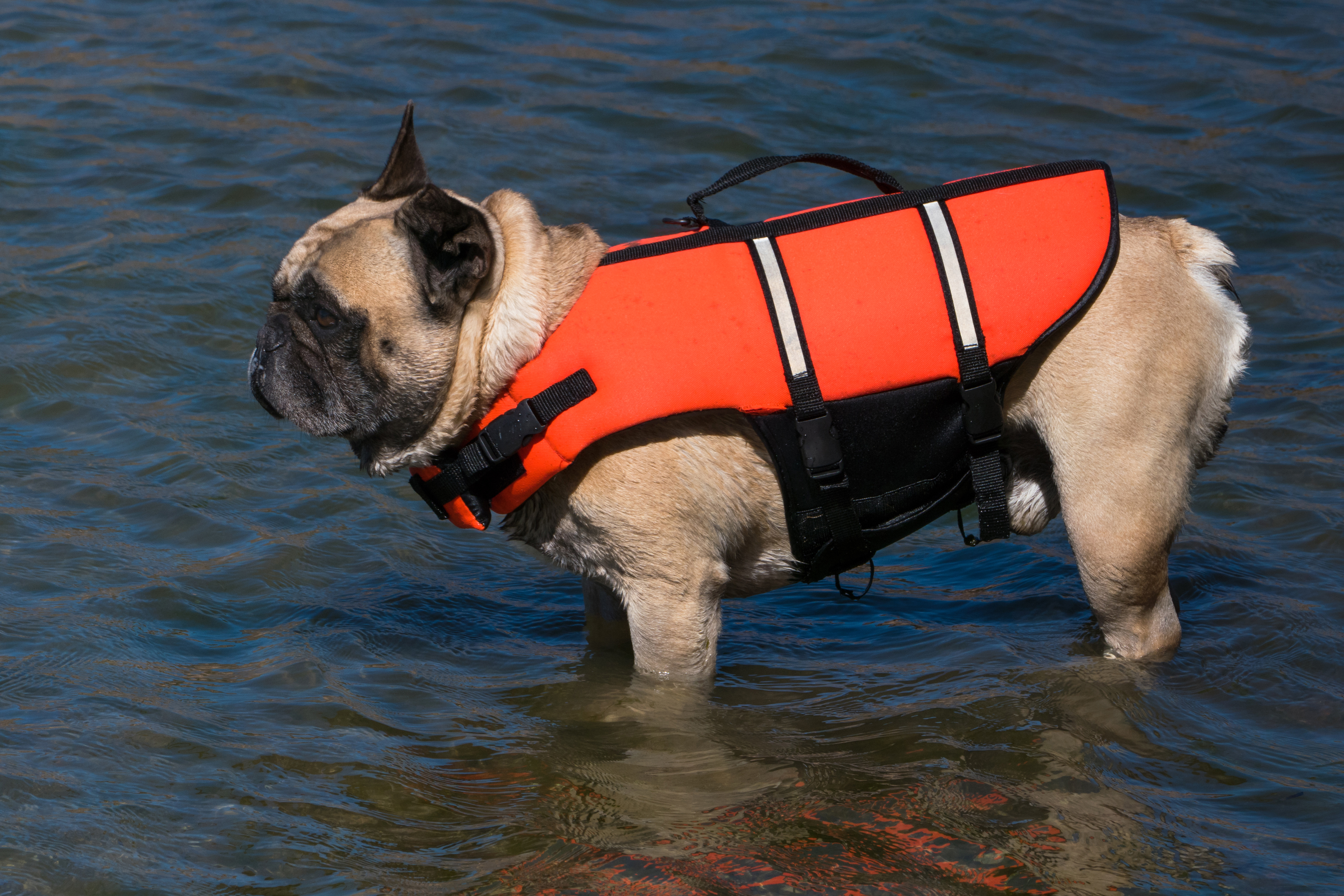 A French bulldog wearing a life jacket in the water at Sandvik beach by Brofjorden, Lysekil Municipality, Sweden. Because of this breed's constitution, they can't really hold their head high over the surface and this may result in inhaling water and drowning. Responsable owners put life vests on their French bulldogs to help them get the right buoyancy.